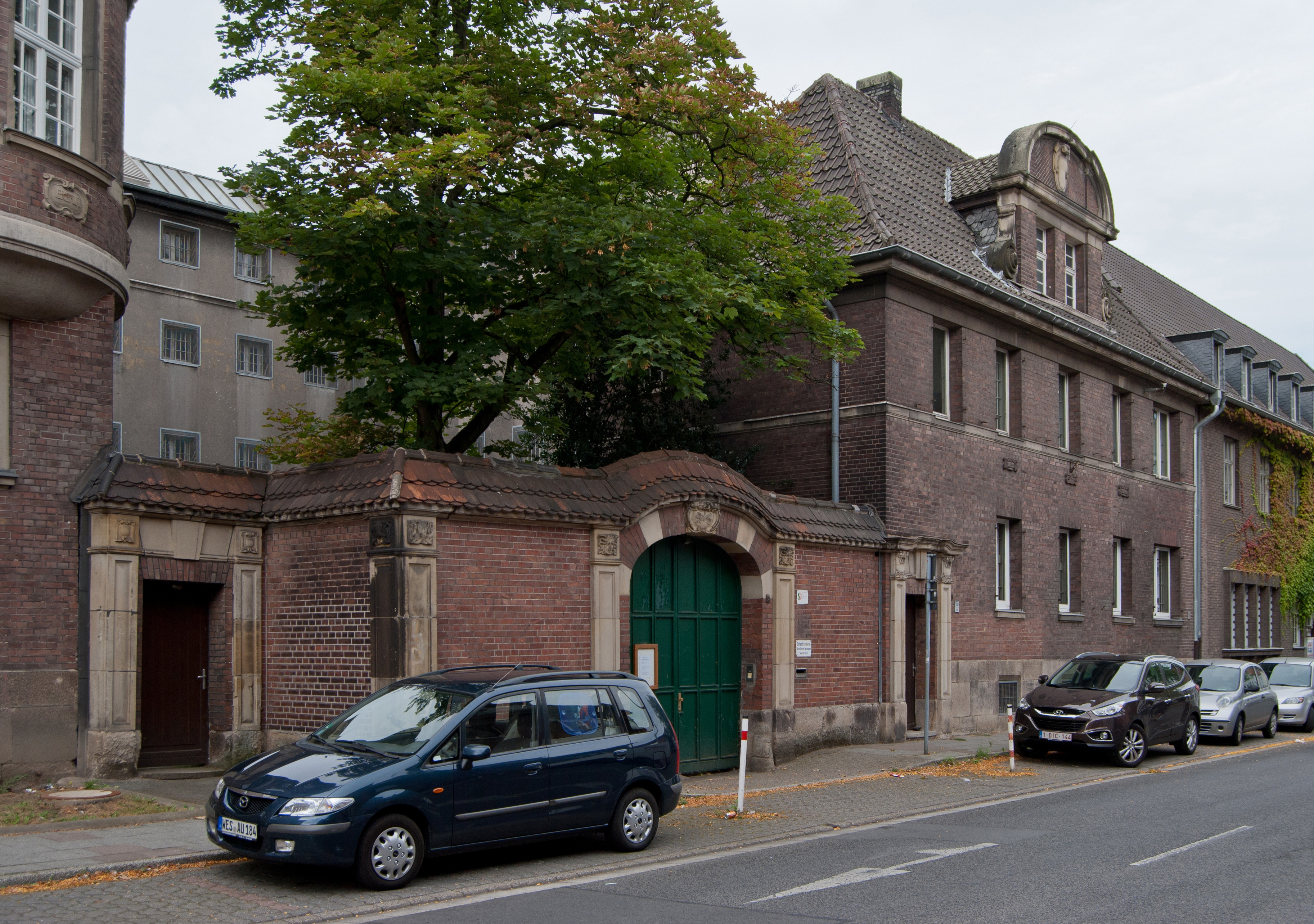 Moers (North Rhine-Westphalia, Germany) – former prison next to the disctict courthouse